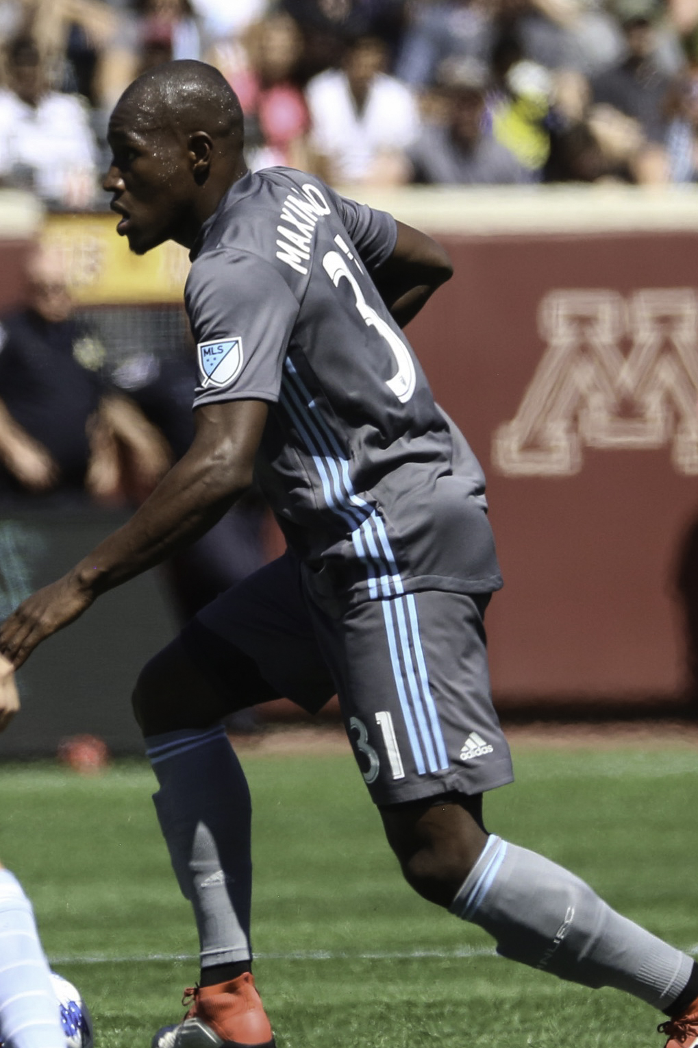 Minnesota United - MNUFC v Sporting KC - TCF Bank Stadium